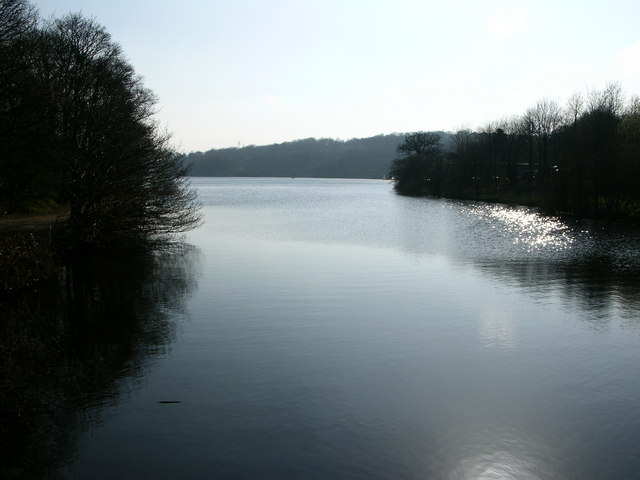 Jumbles reservoir This reservoir, lying in the valley of Bradshaw Brook, was inaugurated on the 11th March 1971 for Bolton Corporation Waterworks. It's a popular walking area, and as a country park, is host to many forms of wildlife. The name Jumbles appears during the 19th century, it is a variation of 'dumbles' which is a northern term for a ravine like valley with wooded sides down which tumbles a fast flowing stream. This reservoir is also fed from the Wayoh and Entwistle reservoirs.